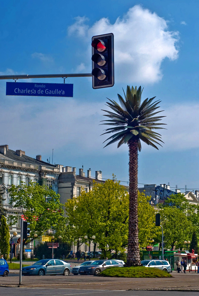 Artificial palm tree by Joanna Rajkowska. Charles de Gaulle Roundabout in Warsaw, Poland